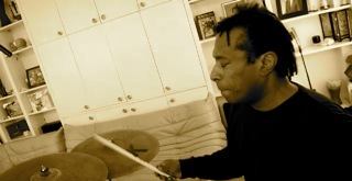 Warren Benbow, Treibhaus Innsbruck, concert with James Blood Ulmer and Charles Burnham